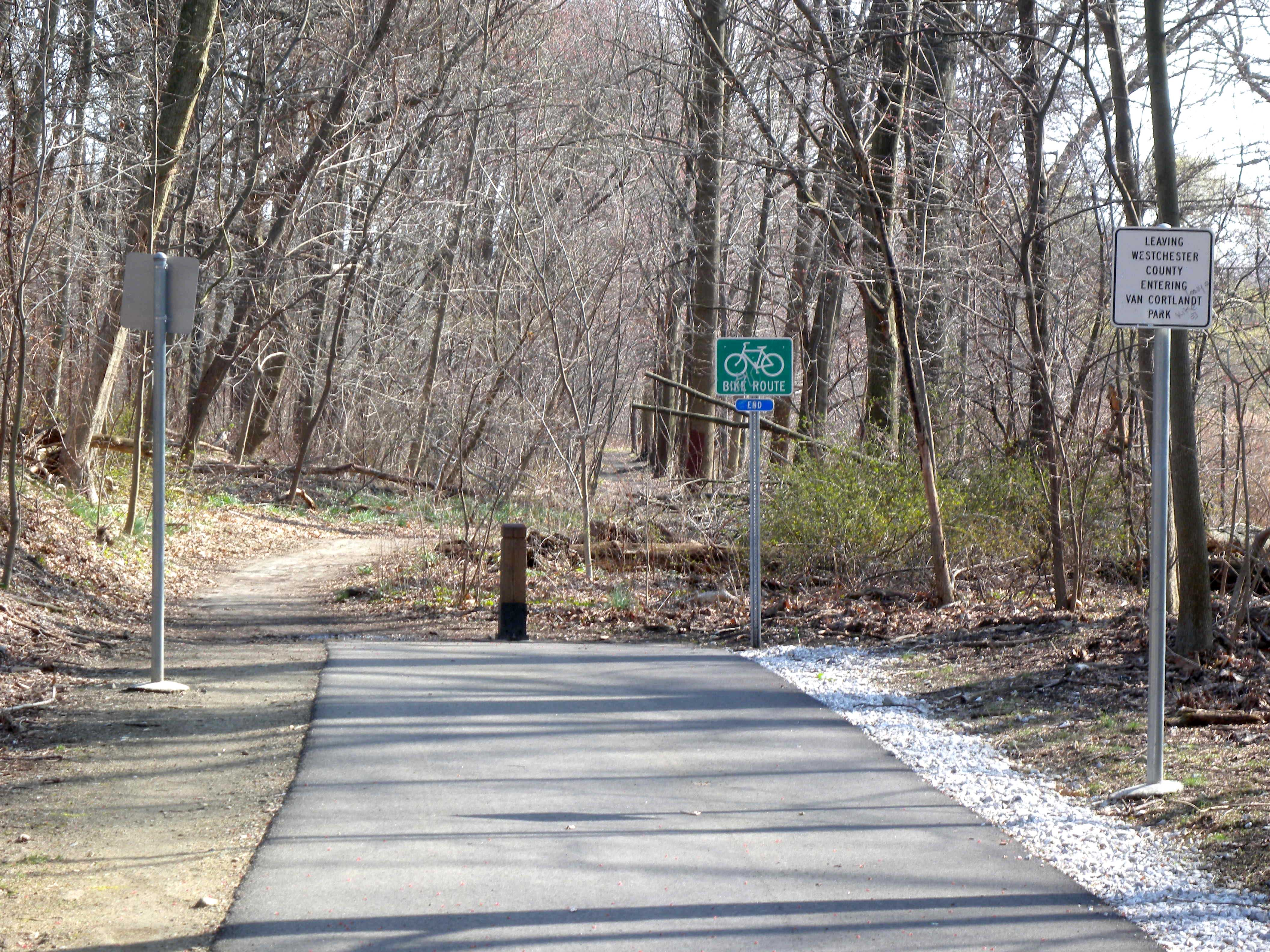 Looking south as the paved South County Trailway ends and enters, unpaved, Van Cortlandt Park on a sunny midday.